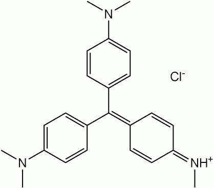 Description: Chemical structure of Methyl Violet 6B] N-(4-(bis(4-(dimethylamino)phenyl)methylene)cyclohexa-2,5-dien-1-ylidene)methanaminium chloride Author, date of creation: selfmade by Shaddack, 3 November 2005 Source: self-made Copyright: Public Domain (PD) Comments: b/w hires PNG; ChemDraw